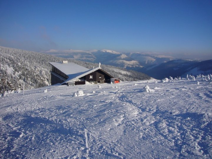 A Labska hut club member personal archive - winter front side of Labska hut